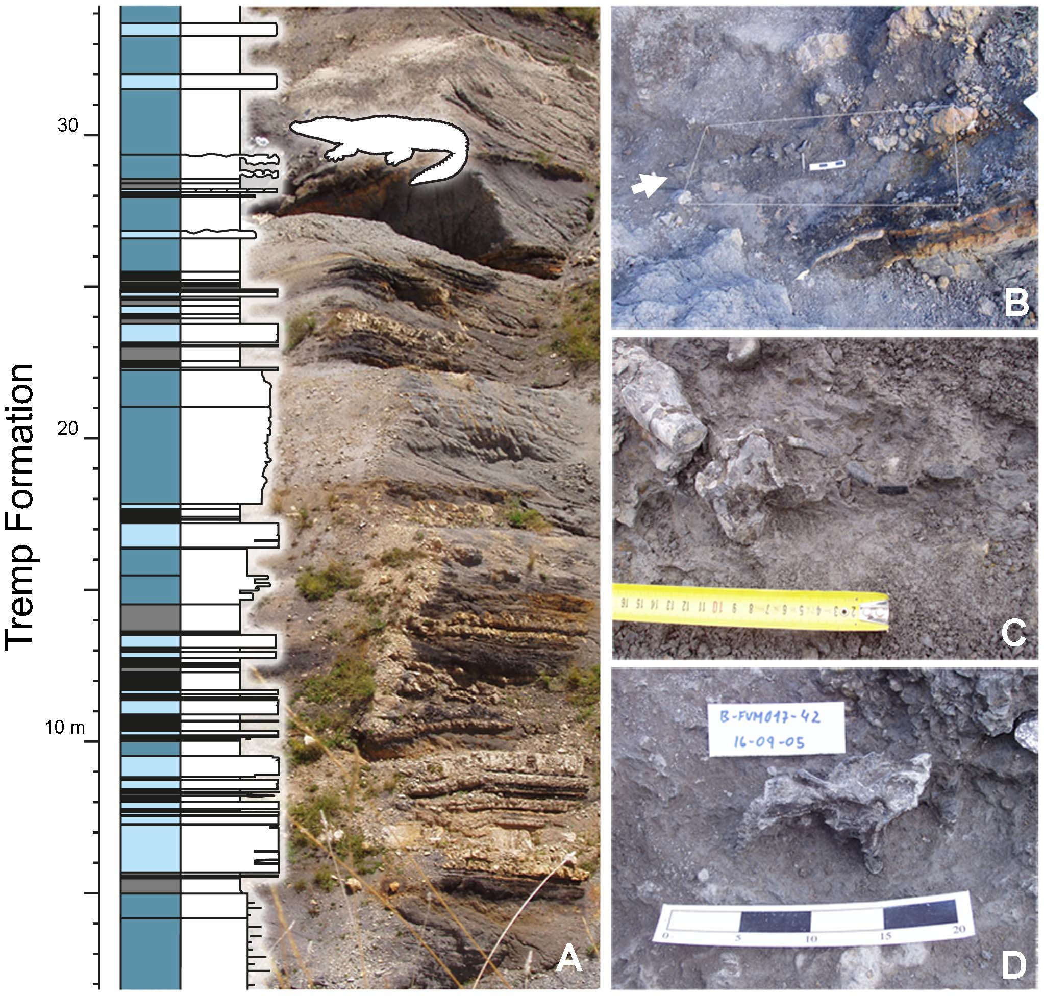 Crocodylian fossil finds in the Tremp Formation at Fumanya Sud. Page 5 of: Blanco, Alejandro (2014). "Allodaposuchus palustris sp. nov. from the Upper Cretaceous of Fumanya (South Eastern Pyrenees, Iberian Peninsula): Systematics, Palaeoecology and Palaeobiogeography of the Enigmatic Allodaposuchian Crocodylians". PLoS One 9: 1–34. Retrieved on 2018-05-24.